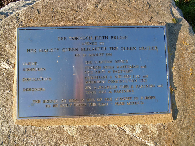 Plaque on the Dornoch Firth Bridge One of the longest bridges in Europe built using the cast-push method (890 m).